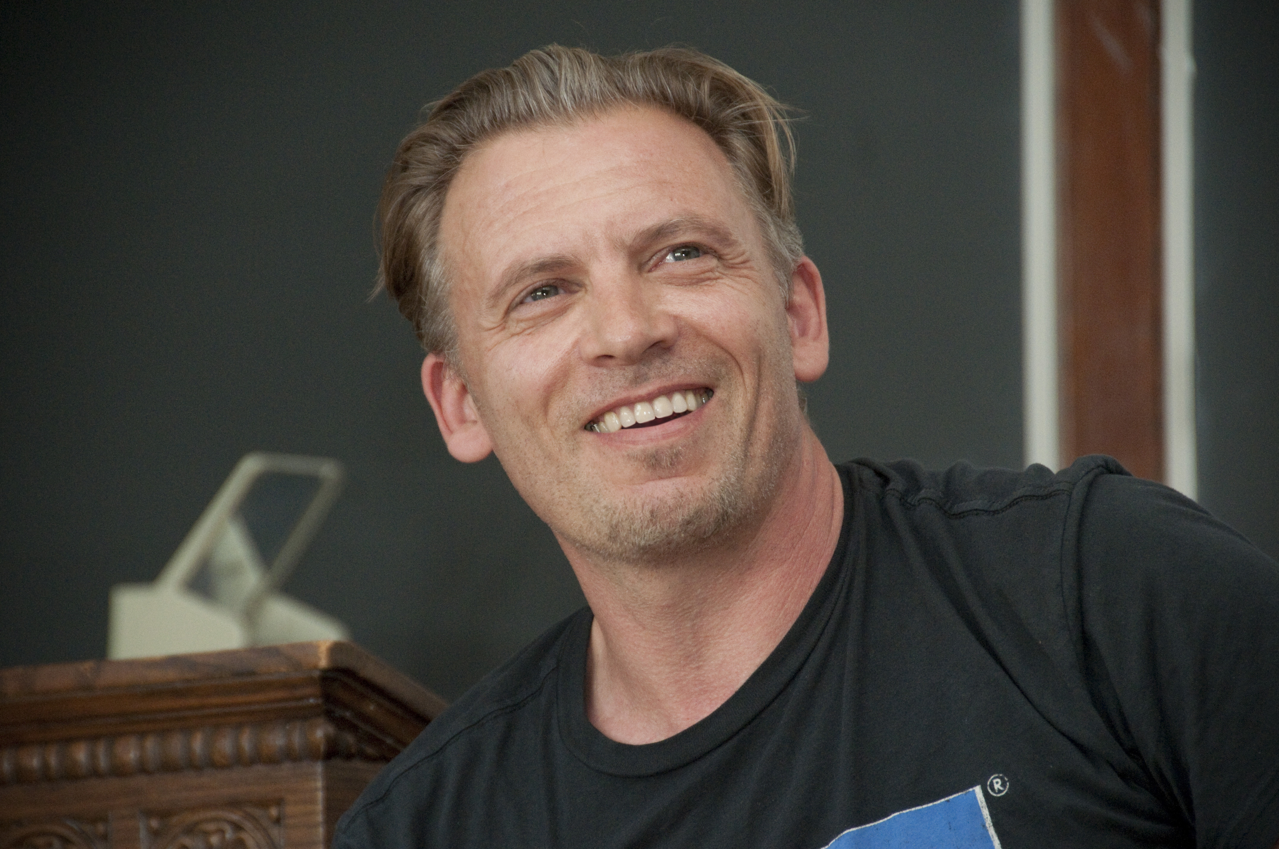 Callum Keith Rennie at the CFC (Canadian Film Centre) Worldwide Short Film Festival in Toronto, Ontario, Canada.